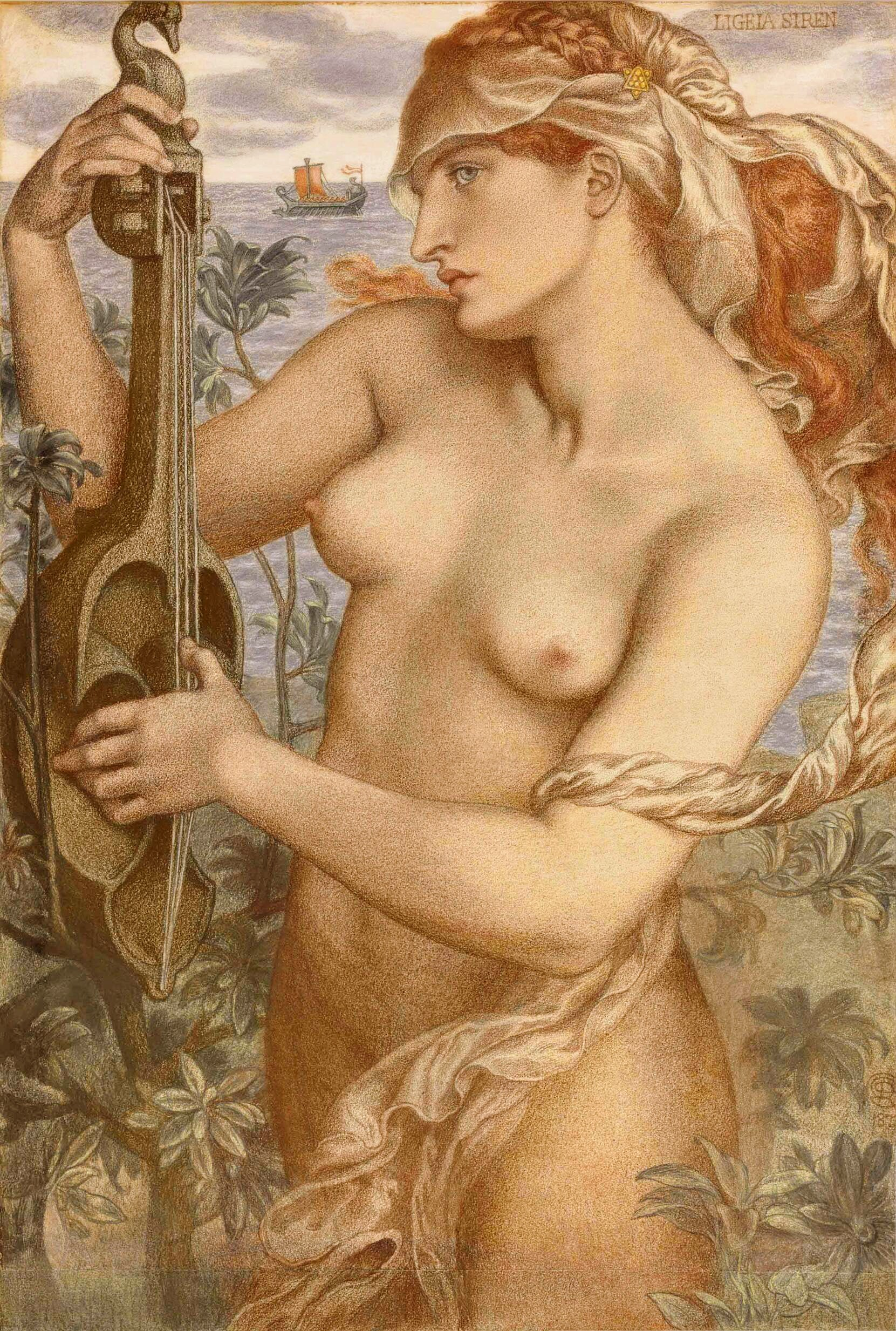 Ligeia Siren